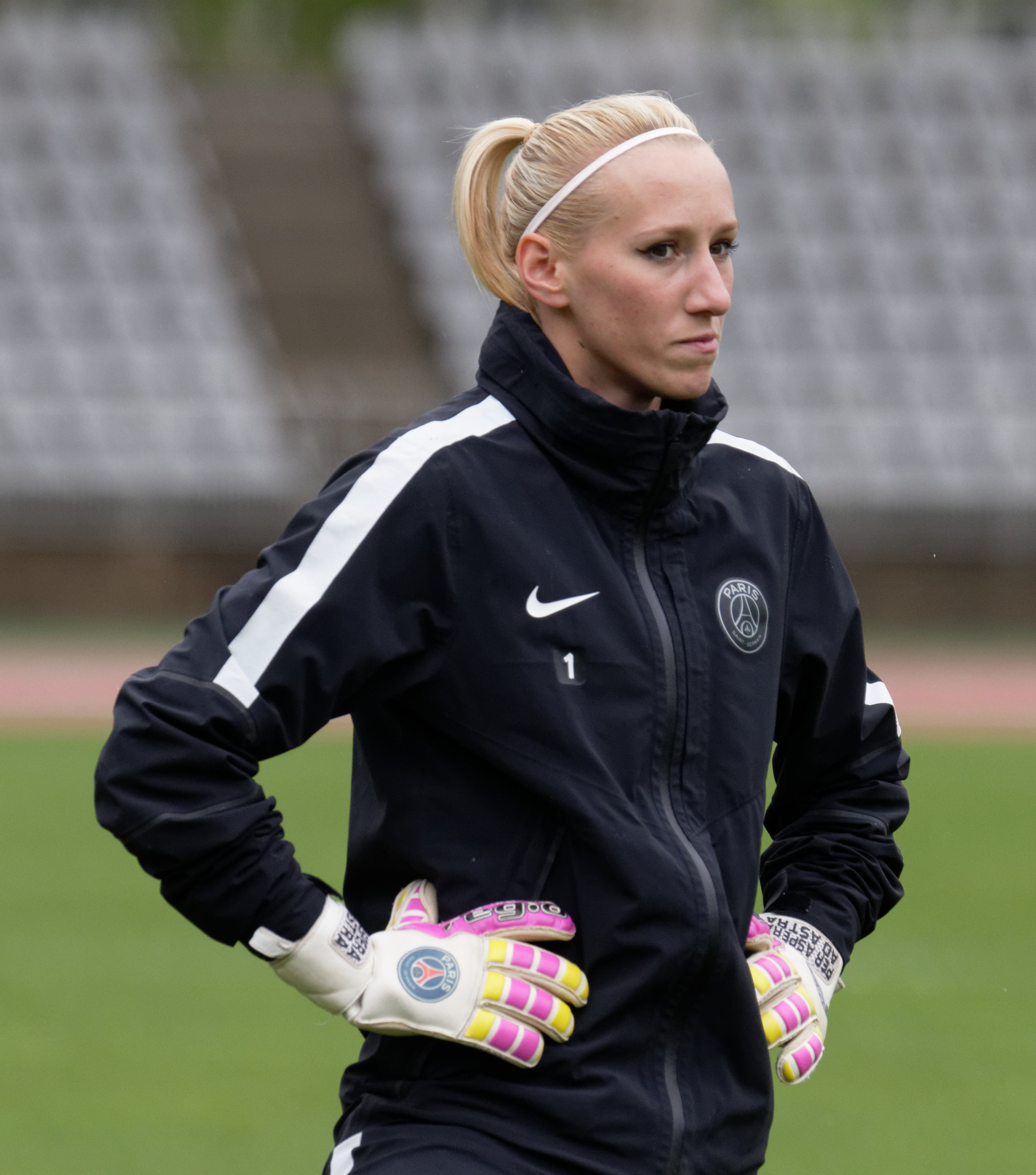 PSG vs Rodez, 3rd May 2015.